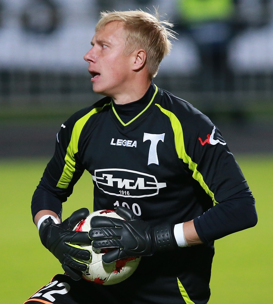 Pyotr Ustinov with FC Torpedo Moscow in a game against FC Ararat Moscow.